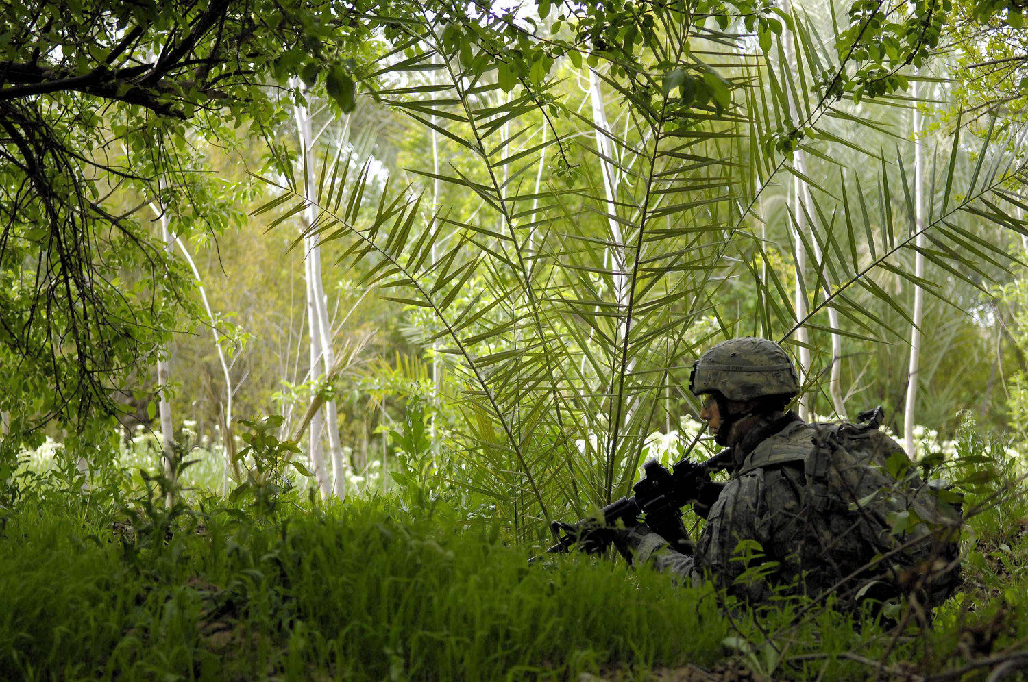 BUHRIZ, Iraq (March 27, 2007) - Soldiers from the 5th Battalion, 20th Infantry Regiment, 3rd Stryker Brigade Combat Team, 2nd Infantry Division, conduct operations in the Diyala Province of Buhriz, Iraq, March 20, 2007